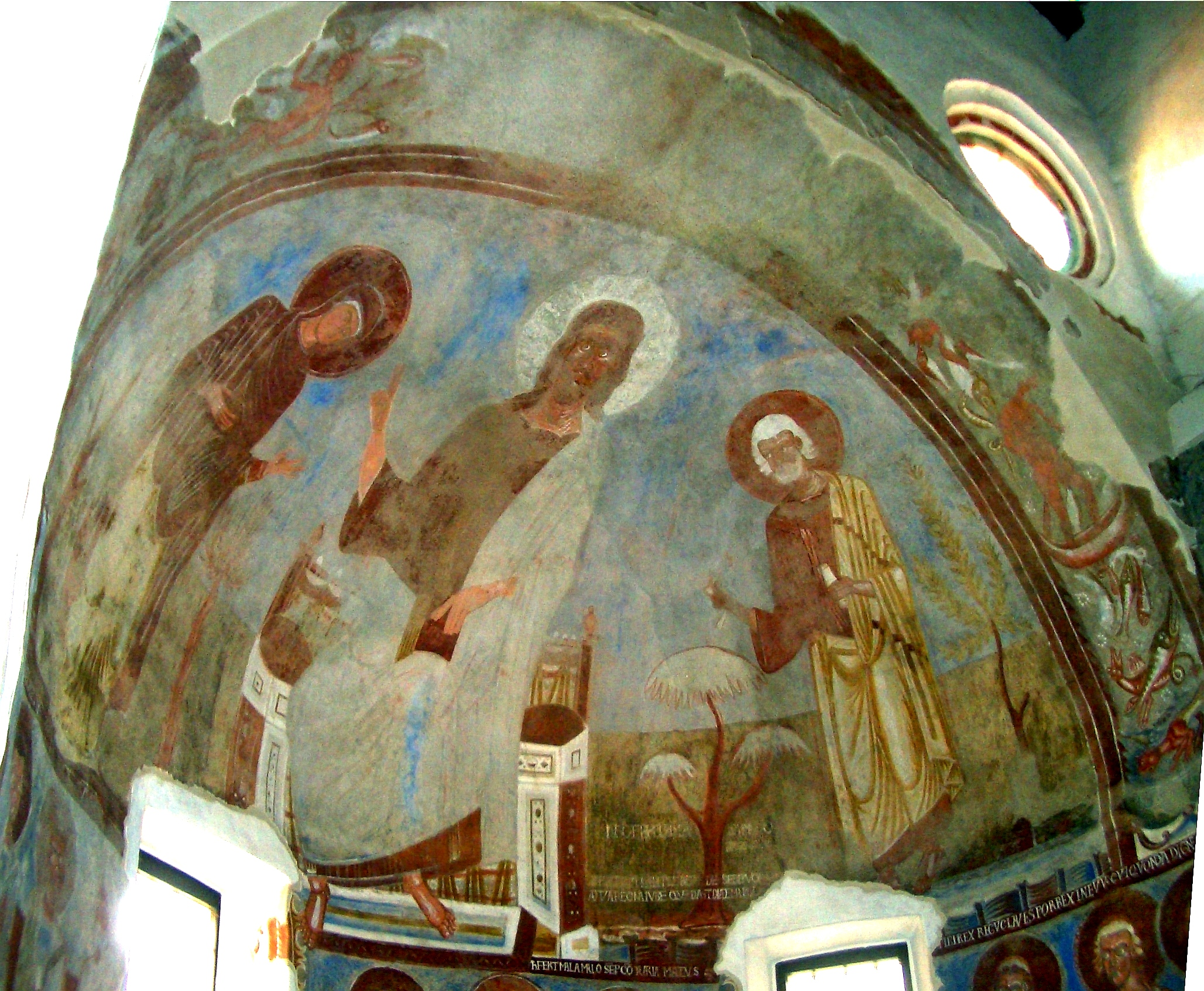 Painter of the XII century, Deesis, Ancient church of St Peter, Carpignano Sesia, Novara, Italy